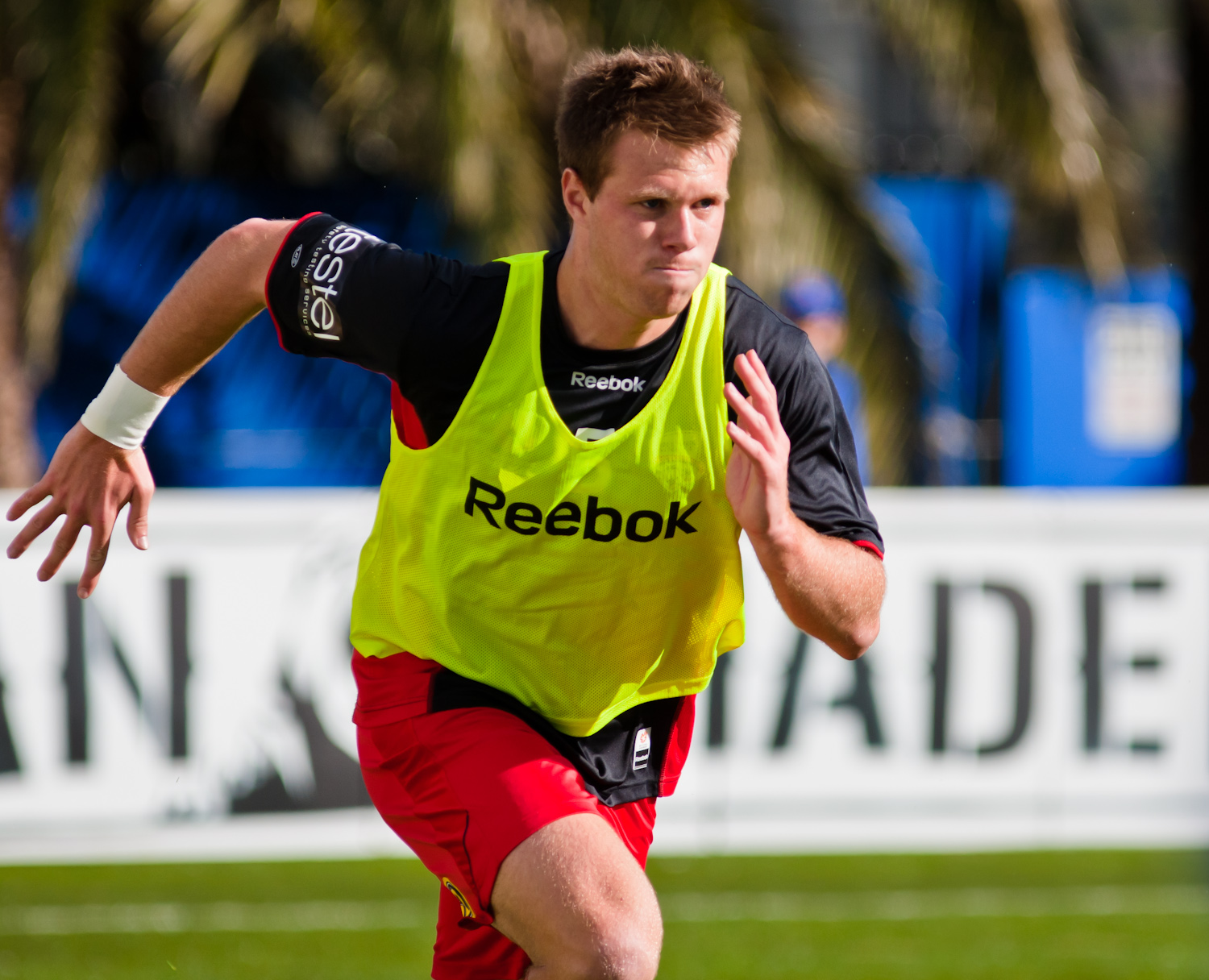 Daniel Mullen warming up before a A-League match against Central Coast Mariners.